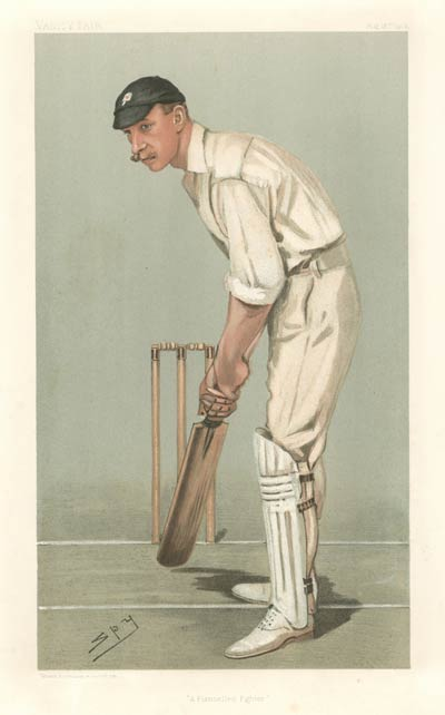 Caricature of The Hon Frank Stanley Jackson, Caption read "A Flannelled Fighter".